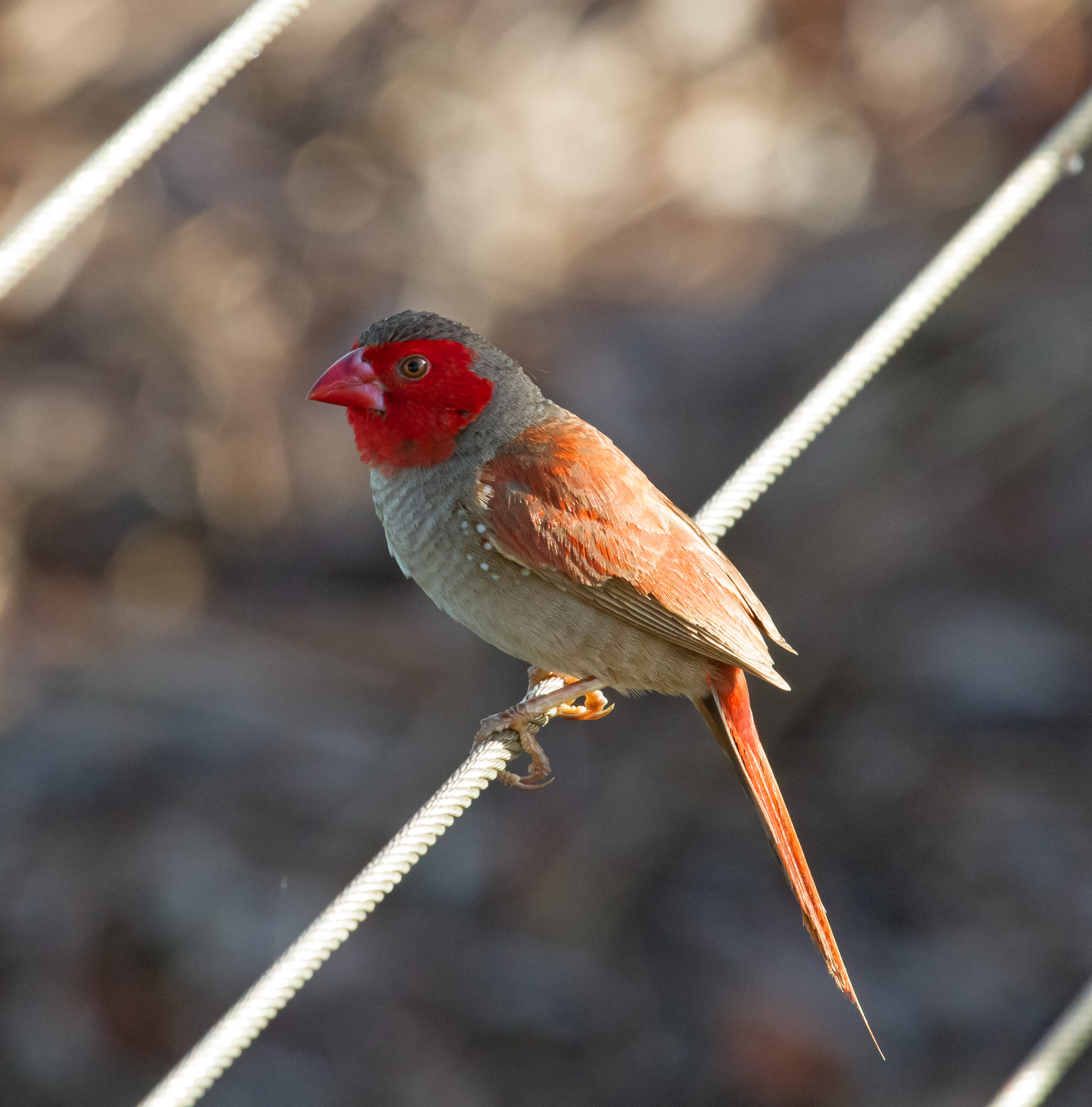 Crimson Finch - Female - Fogg Dam - Middle Point, Northern Territory - Australia